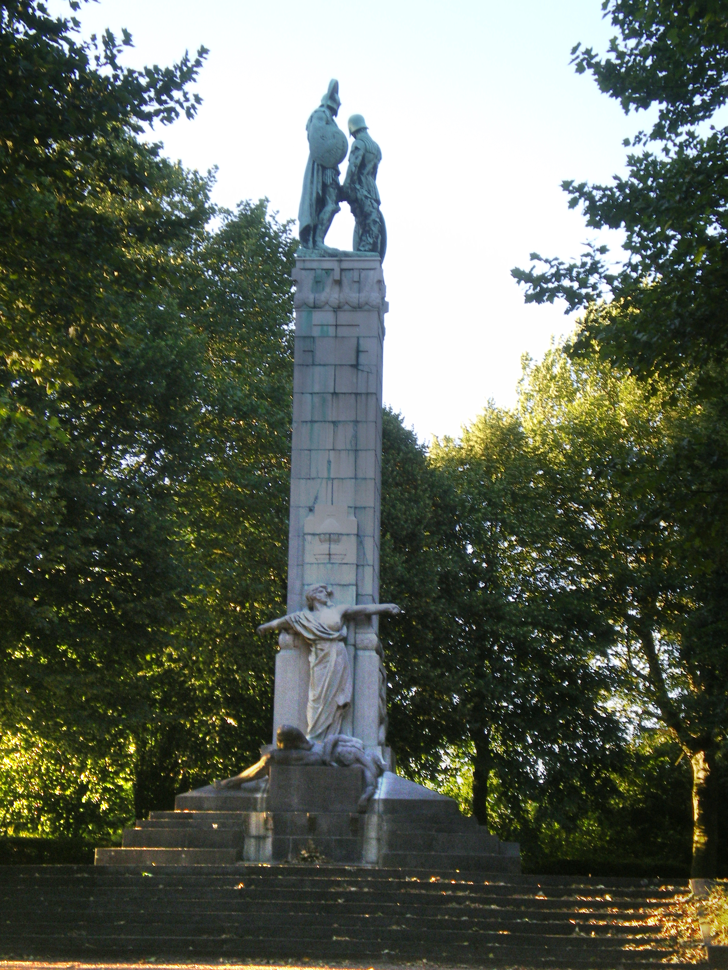 Memorial of the Fort of Loncin, Belgium